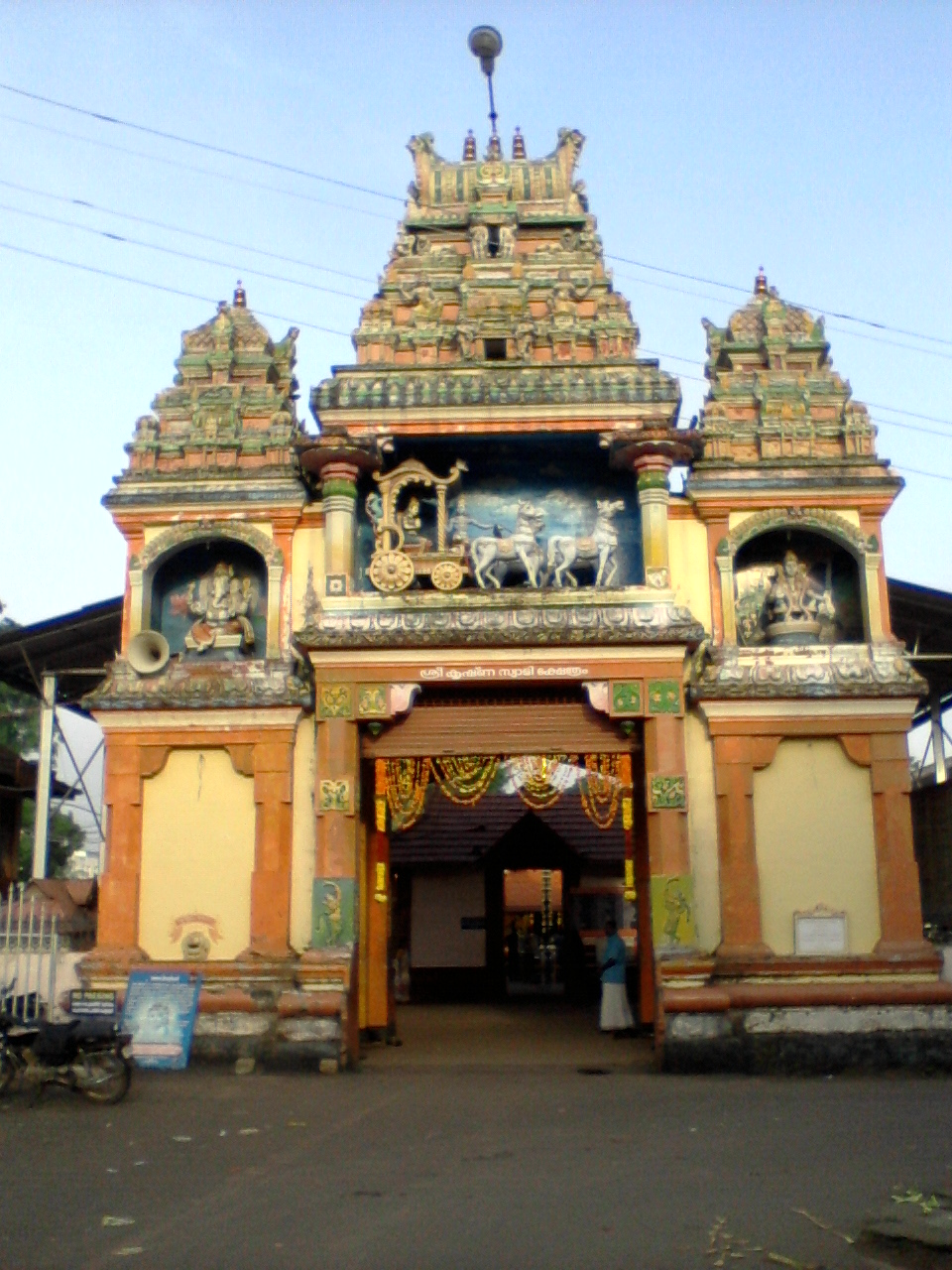 Sreekrishna Swami Temple